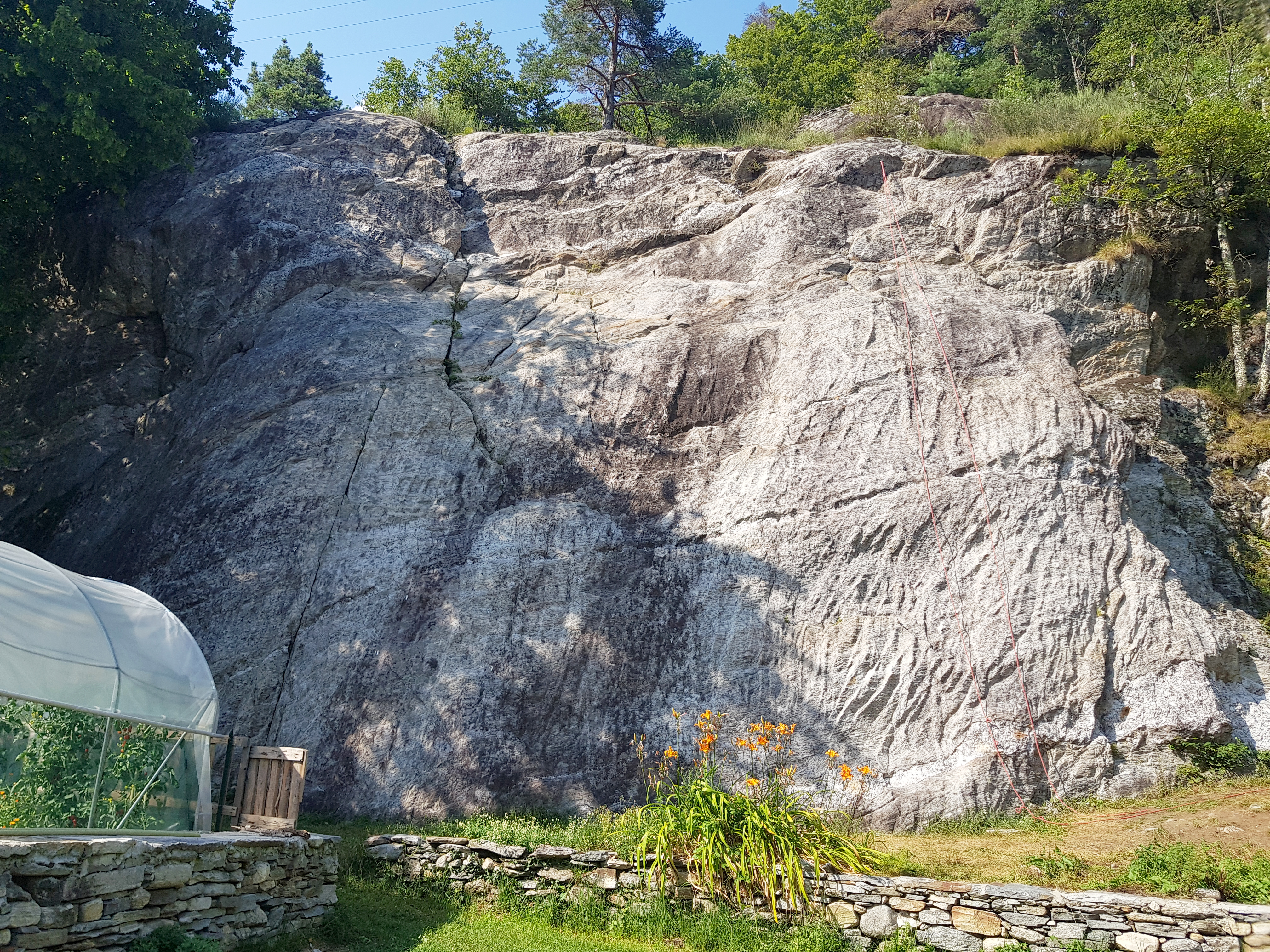 Rock prepared for rock climbing in the village Zornasco, municipality of Malesco, in Val VIgezzo valley, VCO, region Piedmont in Italy. The picture was taken on the 29th of july in 2020.